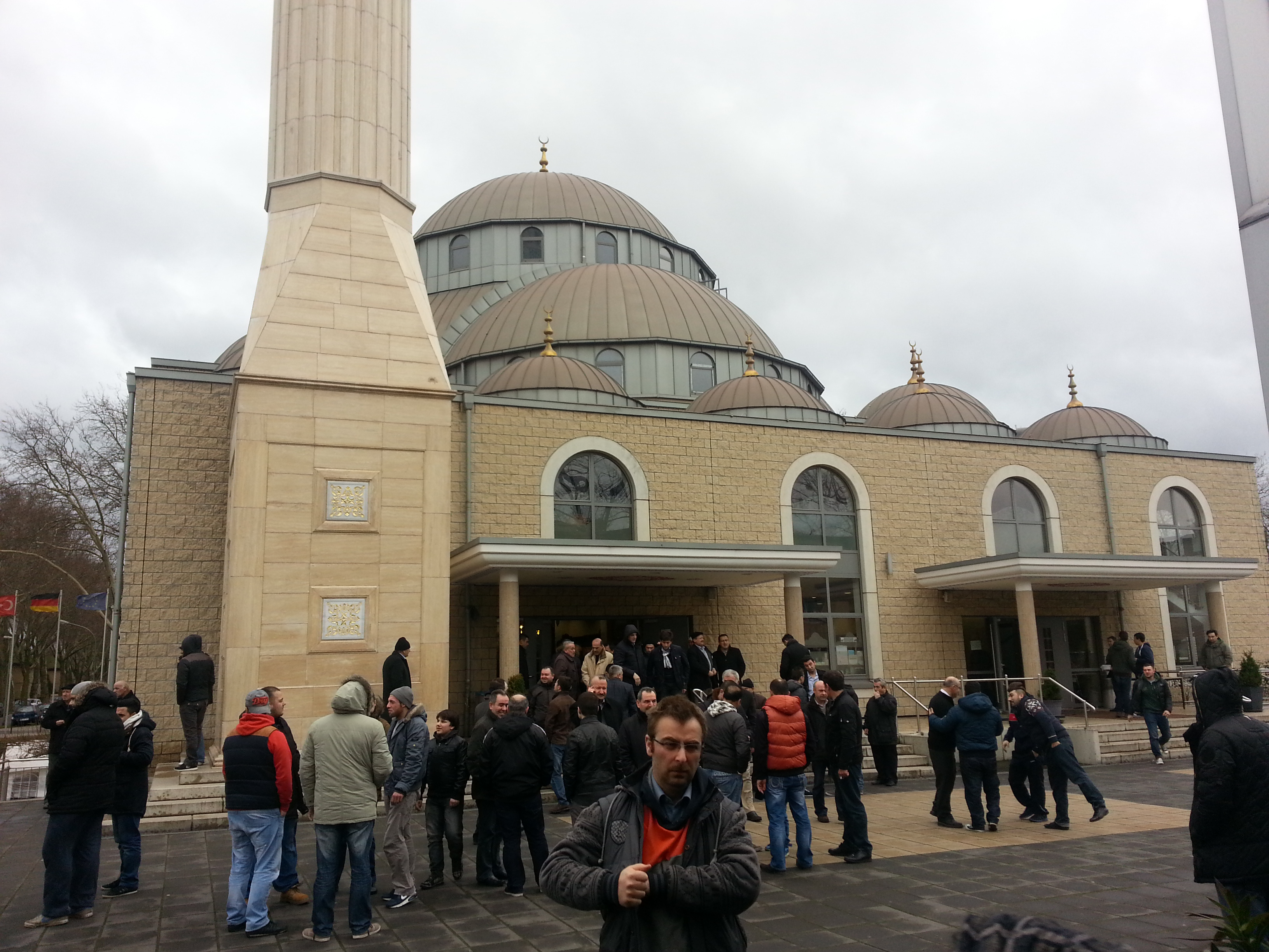 DITIB-Merkez-Moschee